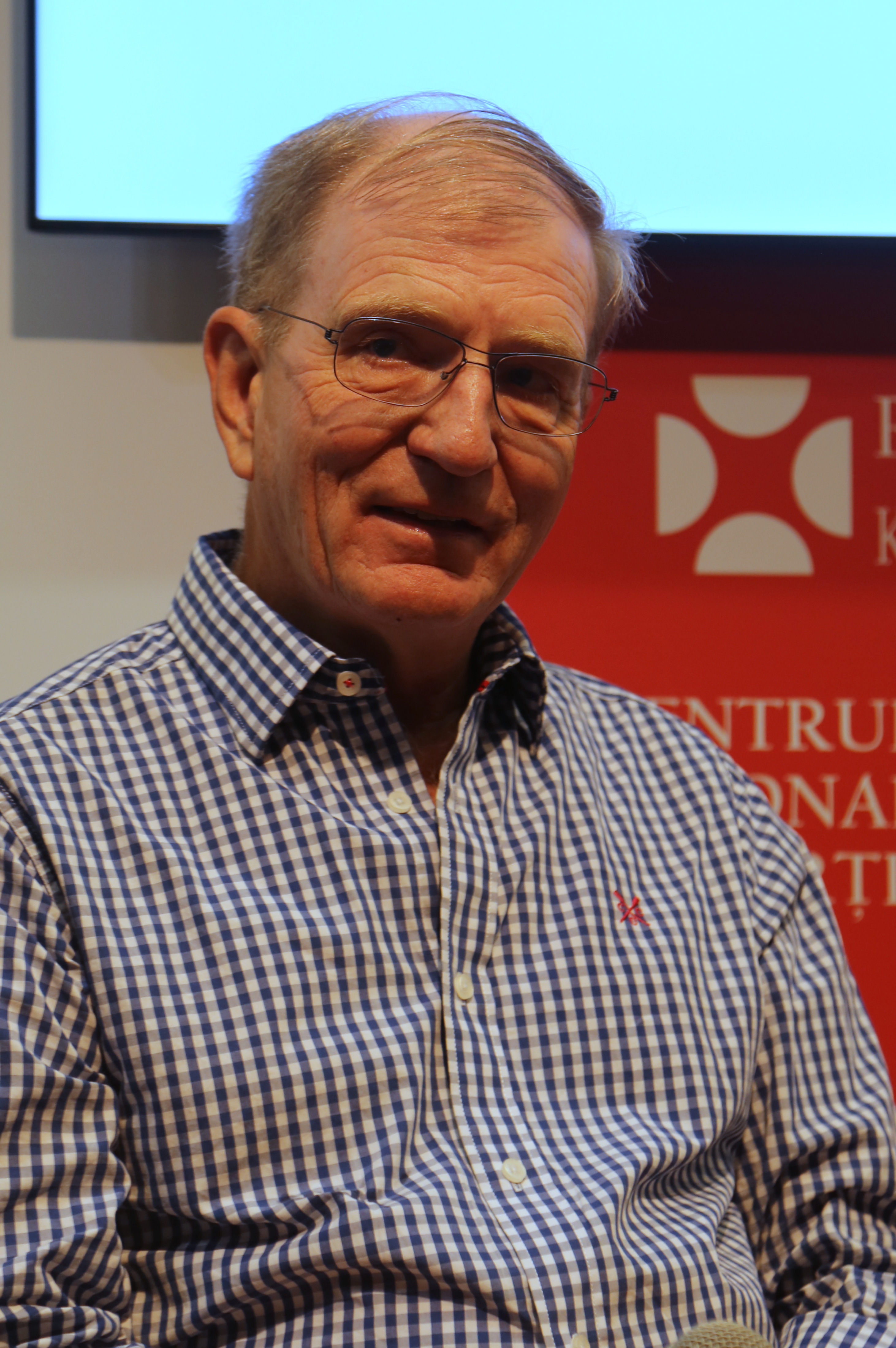 Ingmar Söhrman at the Gotheburg Book Fair 2014.